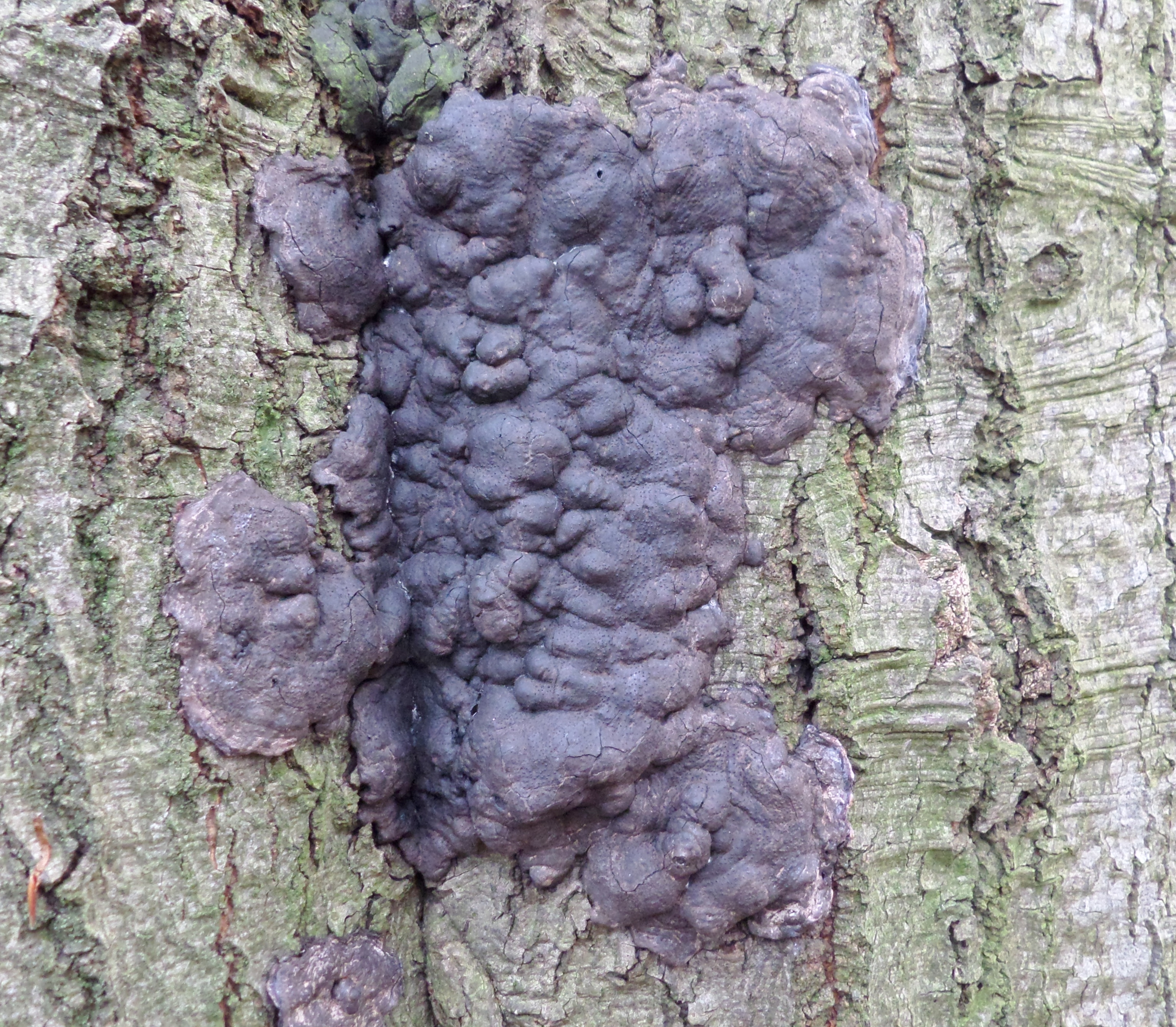 Kretzschmaria deusta or Brittle Cinder Fungus, Lainshaw Woods, Ayrshire, Scotland.